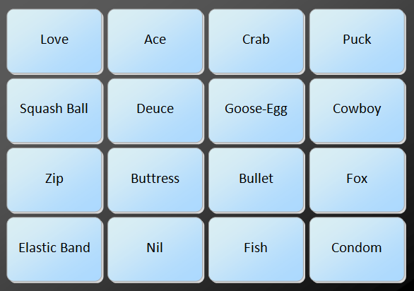 Only Connect Round 3 - unsolved